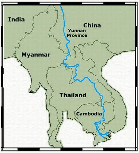 Map of Mekong River